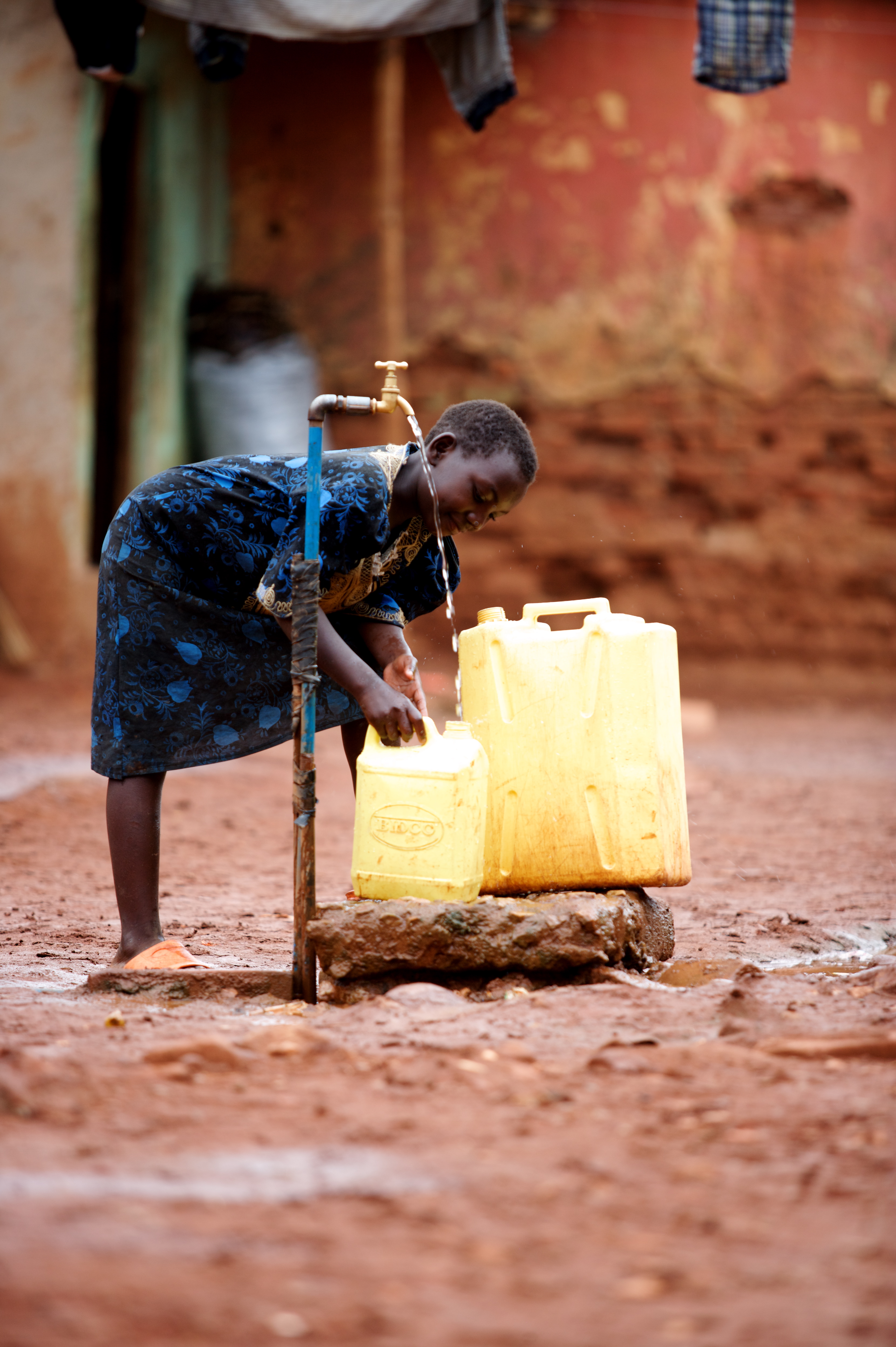 A young girl collects clean water from a supply at her home near Kawempe in Uganda. Australia recognises the importance of access to clean water to the health and livelihoods of people.